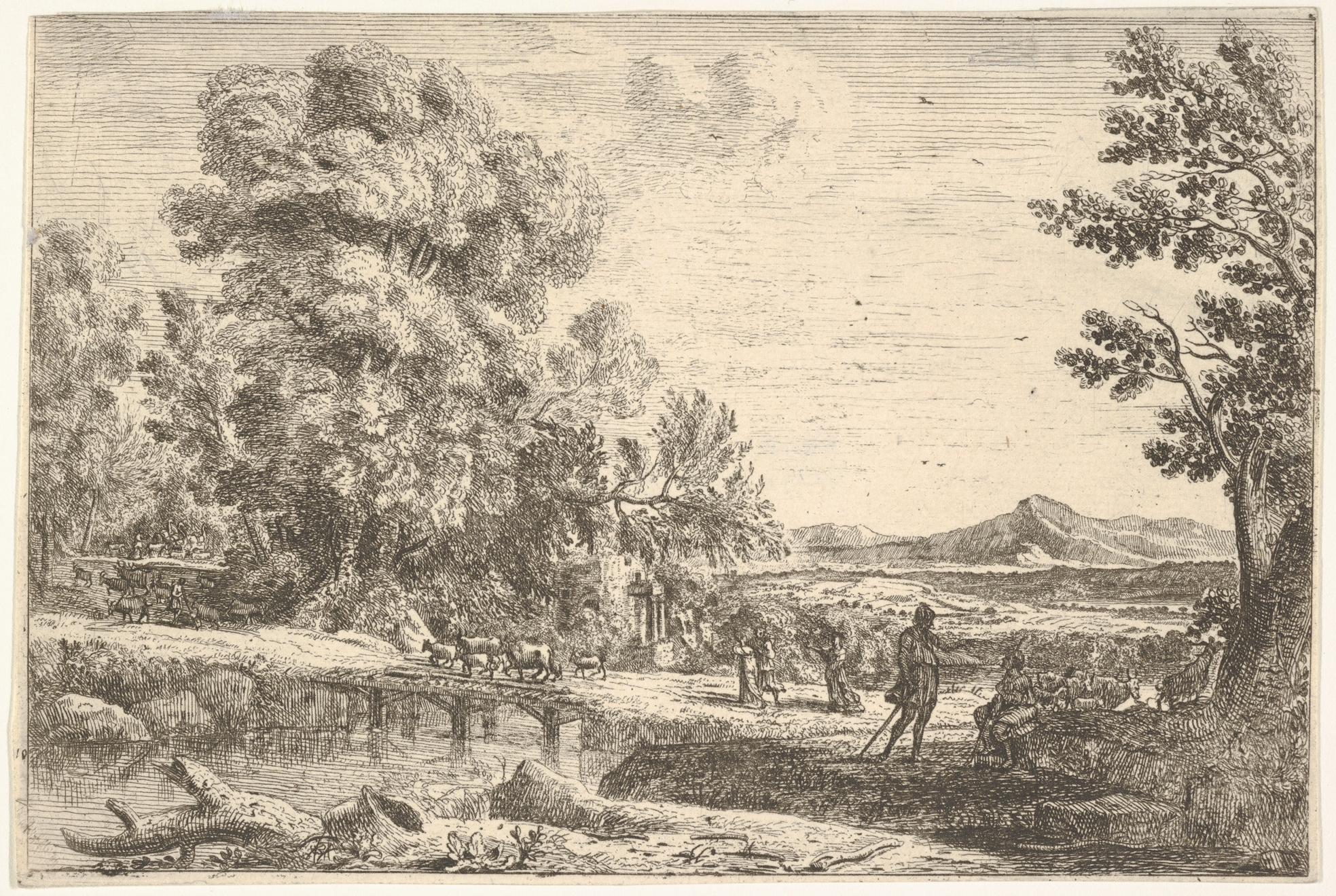 Print; Prints